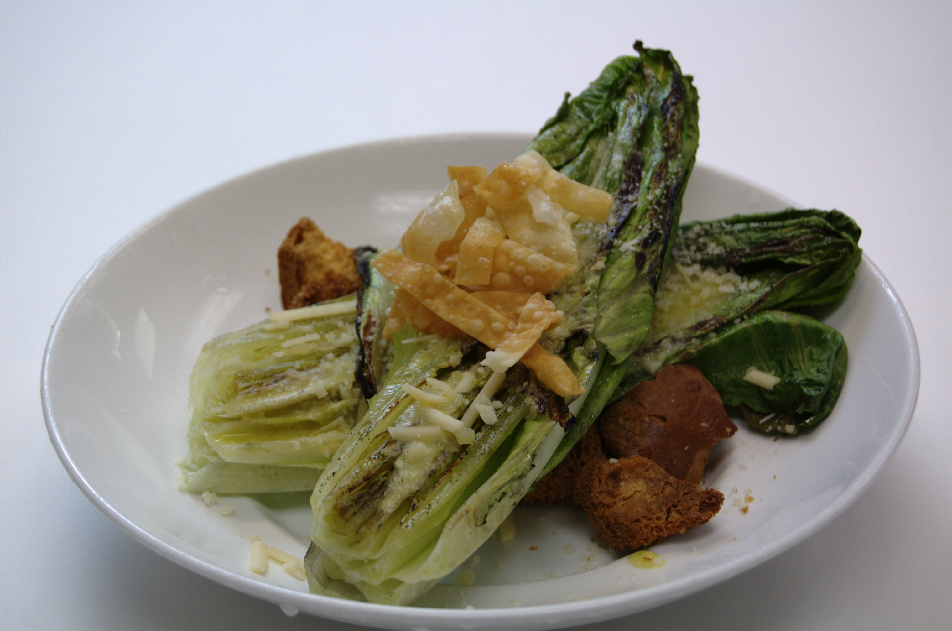 A grilled Caesar Salad made with wood grilled romaine, Parmigiano-Reggiano, asiago, croutons, and fried wontons. Dish courtesy of The Boathouse at Sunday Park